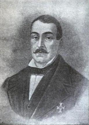 Constantin Stamati (1786 - 1869)